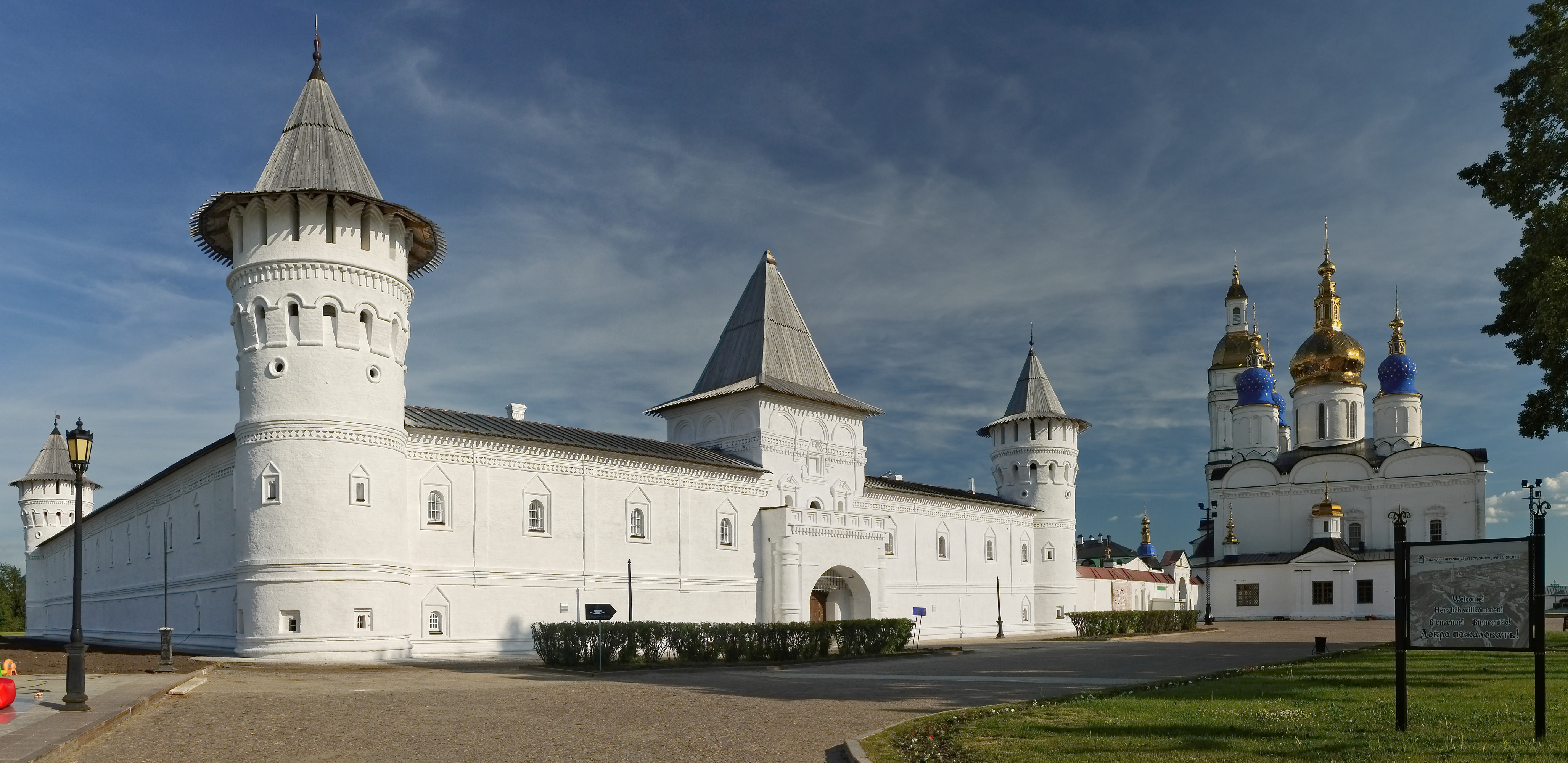 Gostiny dvor.